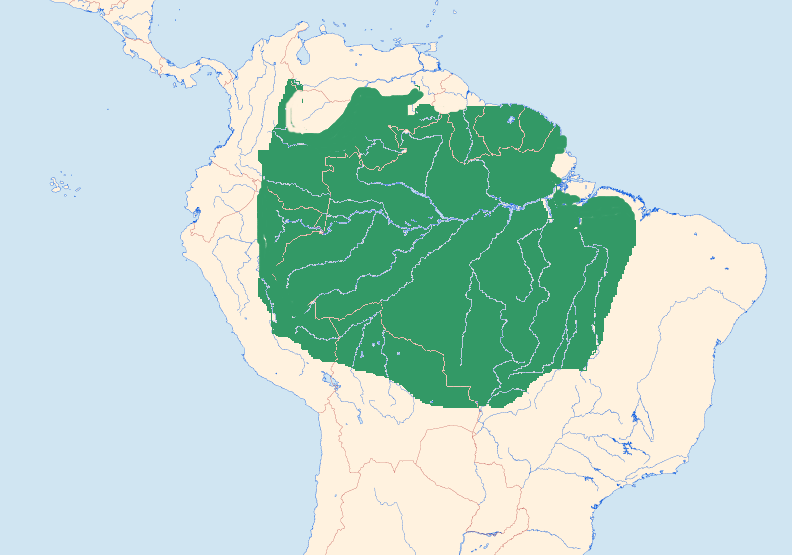 Range Map of Yellow tufted Woodpecker